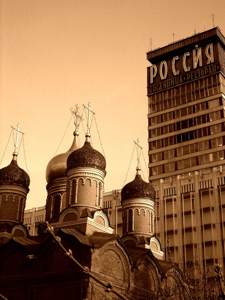 Moscow: Old Church in front of the former Hotel Rossiya